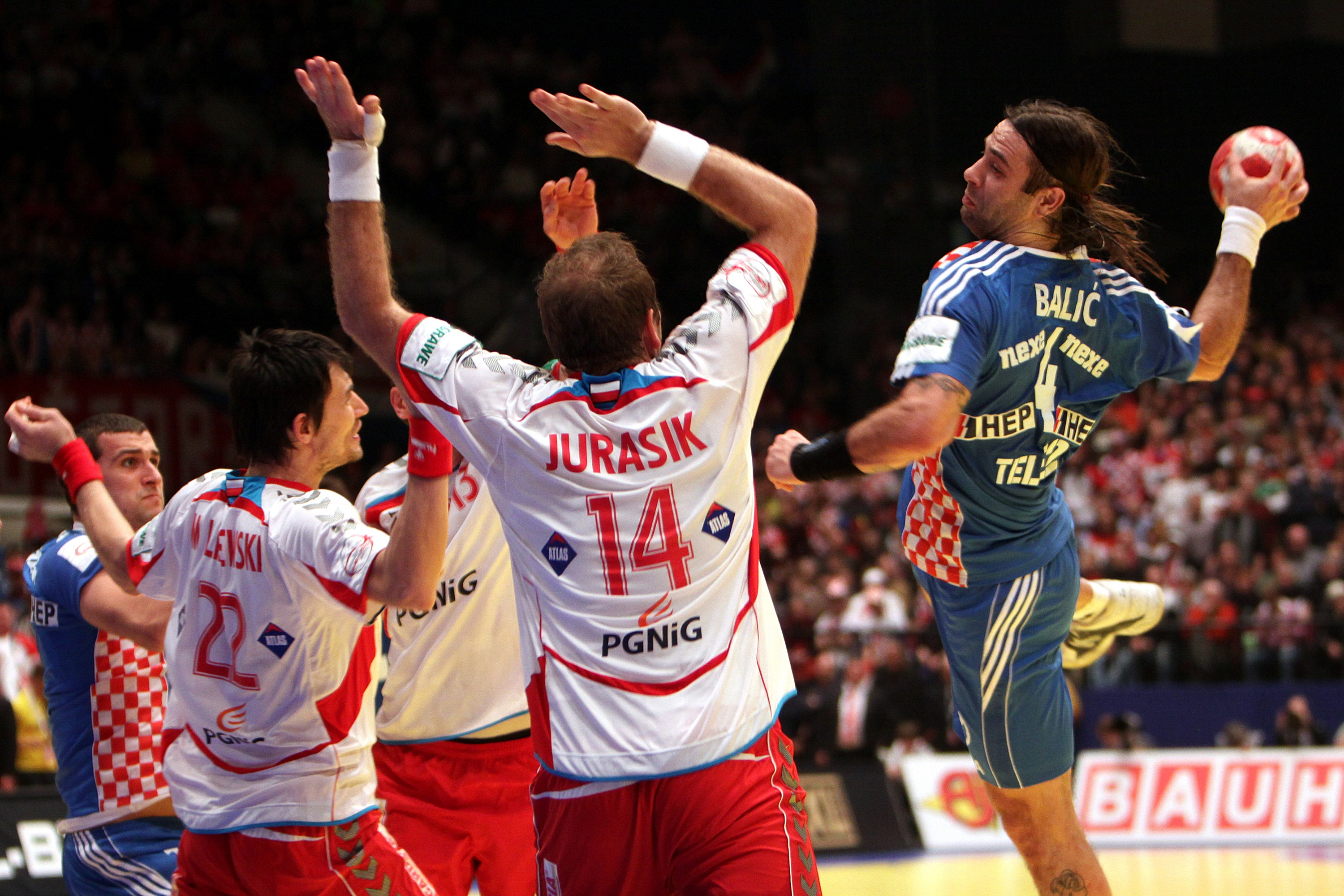 2010 European Men's Handball Championship Semifinal #1: Croatia vs Poland 24:21 — Teamleader Ivano Balić (Croatia national handball team) cannot be blocked by Marcin Lijewski Bartosz Jurecki Mariusz Jurasik (Poland national handball team) and scores.